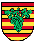 Coat of Arms of Erlabrunn